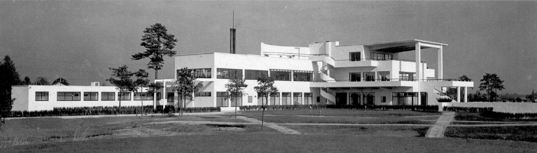 Antonin Raymond: Golf Club, 1932, Asaka, Saitama pref.. Lost